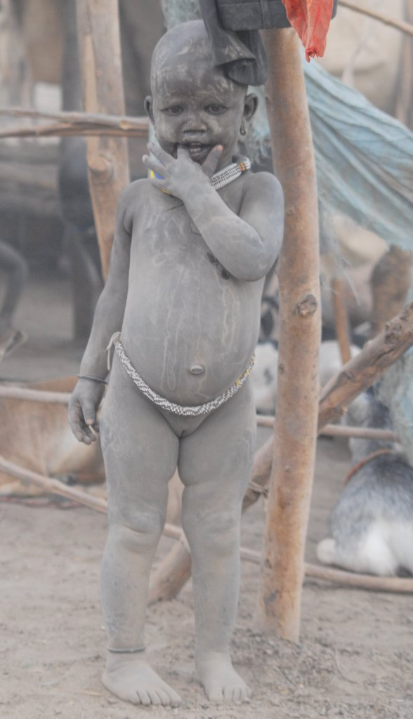 A small girl stands looking at the visitor who went to do Cholera surveillance in the Cattle Camp near Pagarau, Yirol East South Sudan. With the Ash smeared on the body, she is protected from Insect bites, cold weather and minor Injuries but can she survive Cholera? This is an image with the theme "Africa on the Move or Transport" from: Uganda